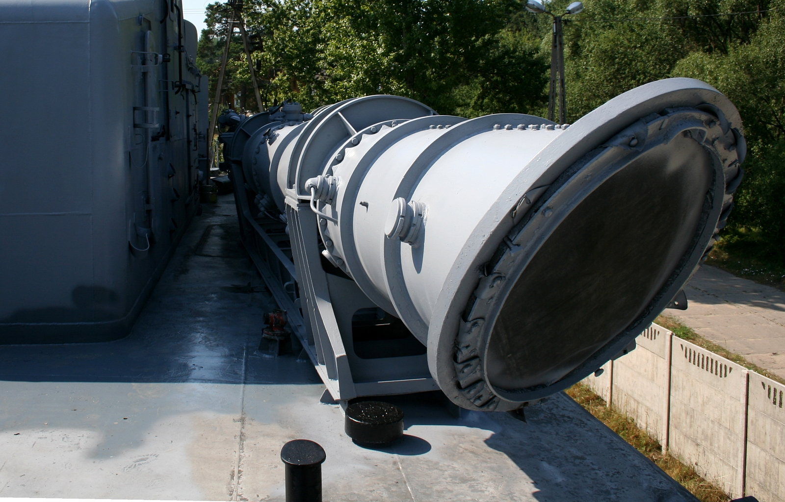 This picture was taken in The White Eagle Museum in Skarżysko-Kamienna